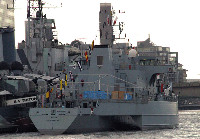 RV Triton moored next to HMS Belfast on the River Thames, London